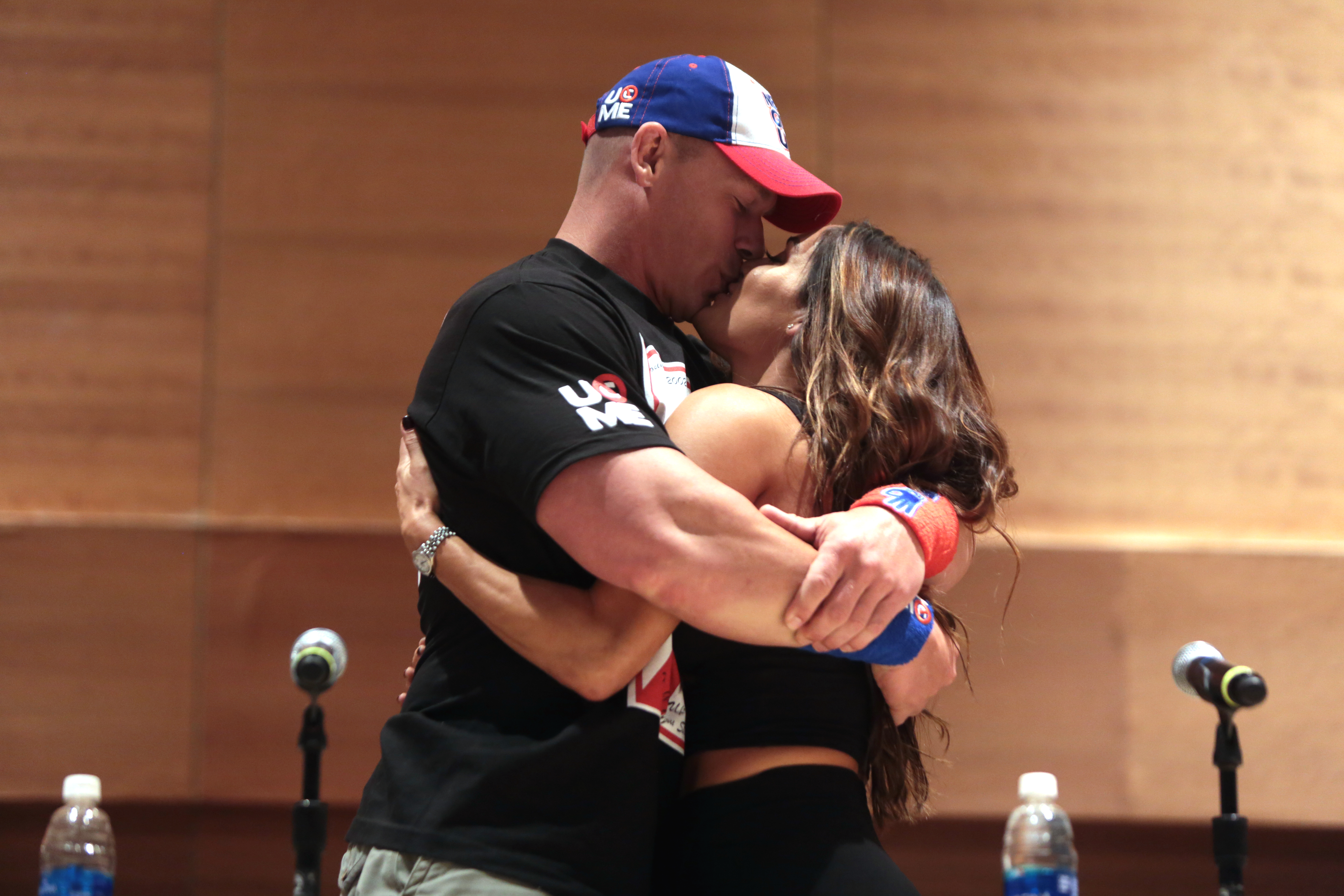 The Professional Wrestler John Cena and your wife Nikki Bella at Phoenix ComicCon em 2016